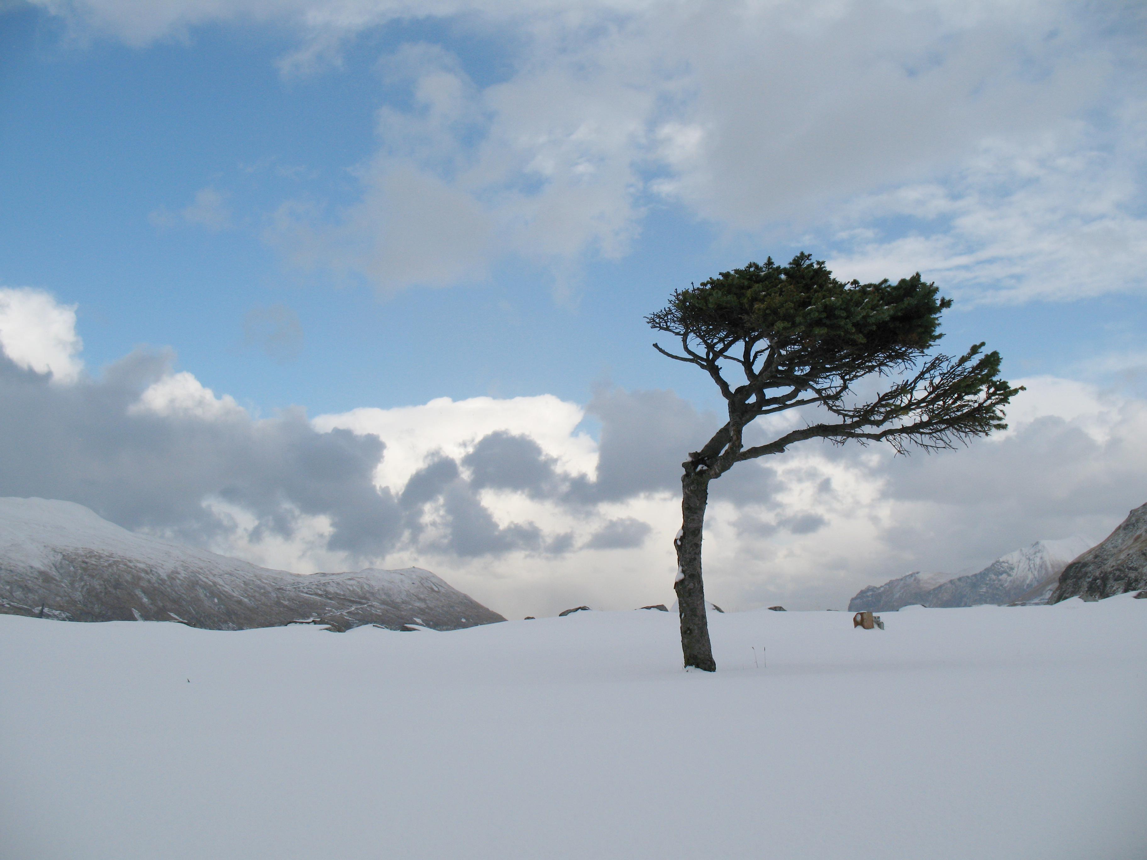 Windswept tree (Picea sitchensis) near Dutch Harbor, Alaska